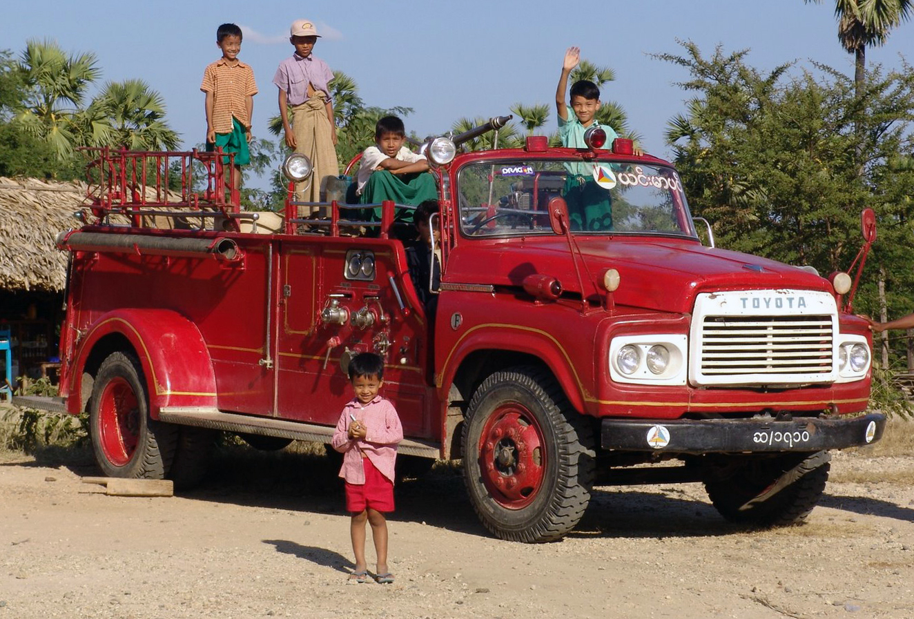 Old Toyota FA100 (5000) firetruck in Myanmar